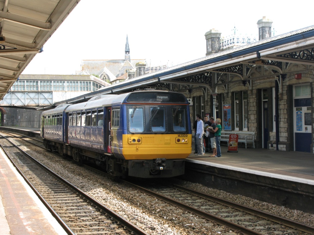 First Great Western 142009 calls at Teignmouth station in Devon, England, with a Riviera Line train from Exmouth to Paignton.